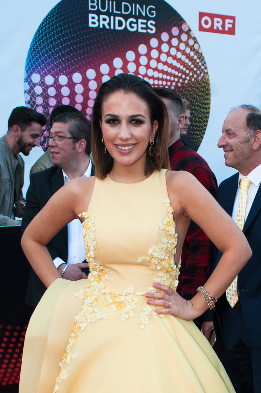 Eurovision Song Contest Vienna 2015: Elhaida Dani, Albania